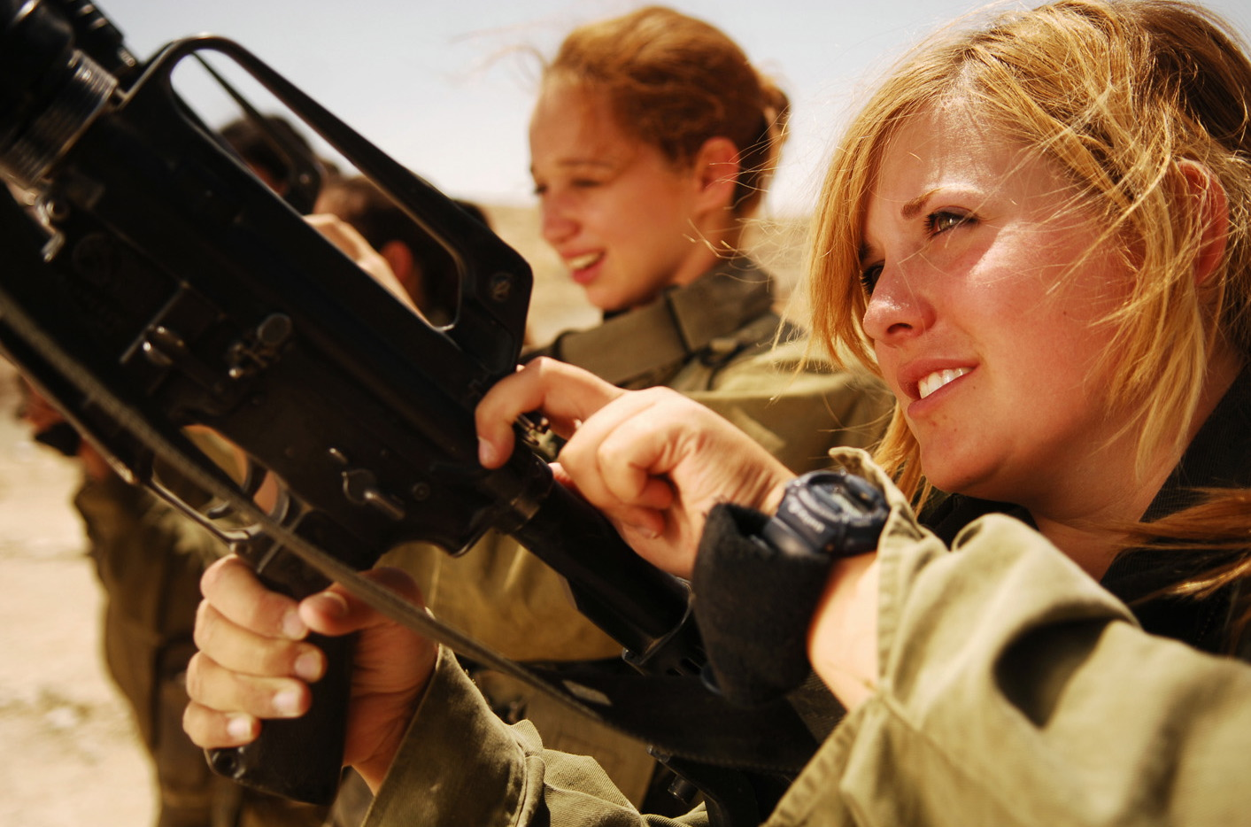 May 27, 2008 The Field Training Week in southern Israel, part of the IDF Infantry Instructors course, includes individual and group drills, navigation practice, sleeping in the field and camouflage training. At the end of the course the female soldiers are placed in various positions, instructing IDF Ground Forces. Featured as Photo of the Day on August 23, 2011. Official Facebook page of the Israel Defense Forces The Israel Defense Forces blog Follow us on our Official Twitter